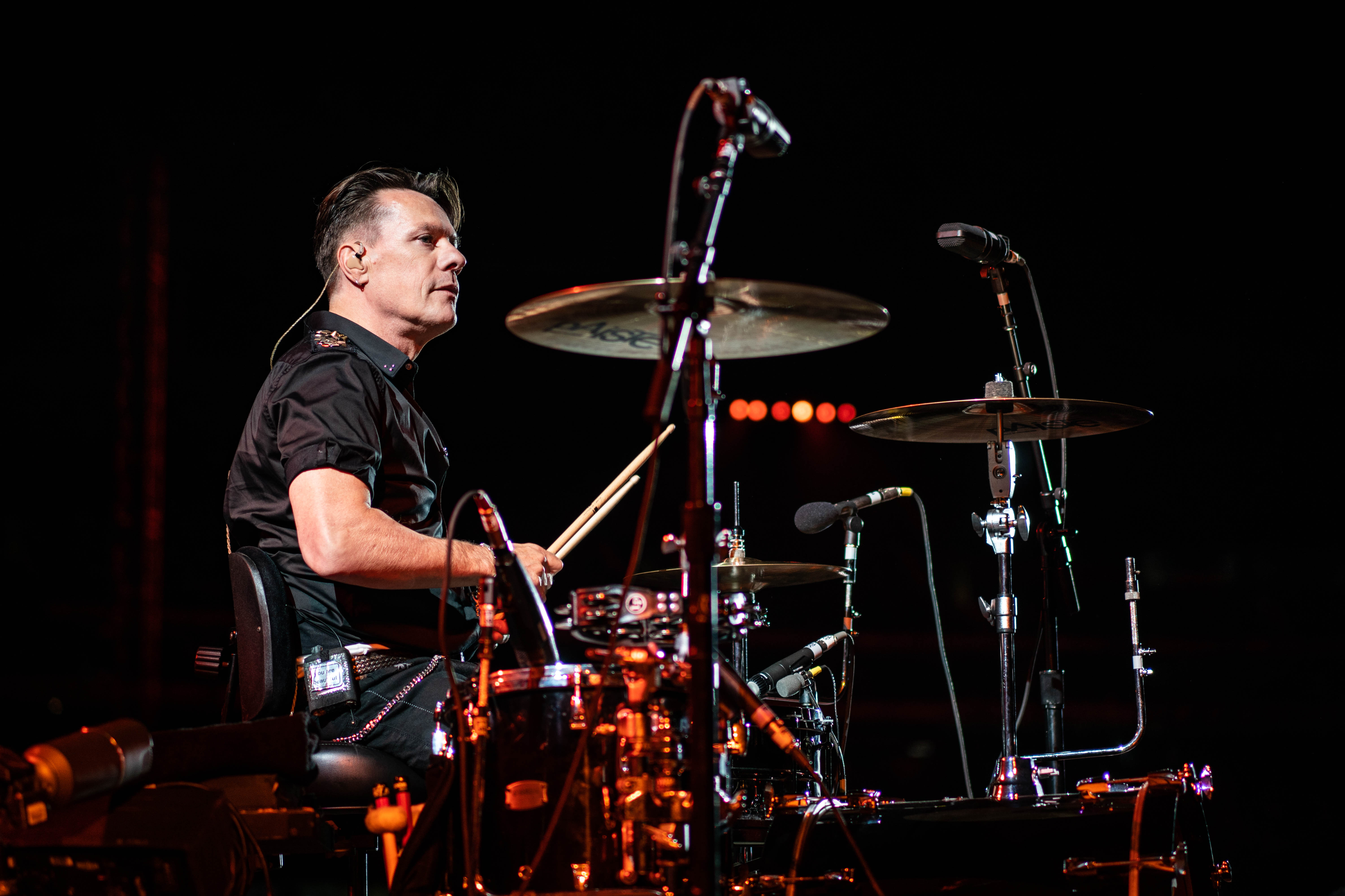 Irish rock band U2 performing at Marvel Stadium in Melbourne, Australia on November 15, 2019, during the band's The Joshua Tree Tour 2019